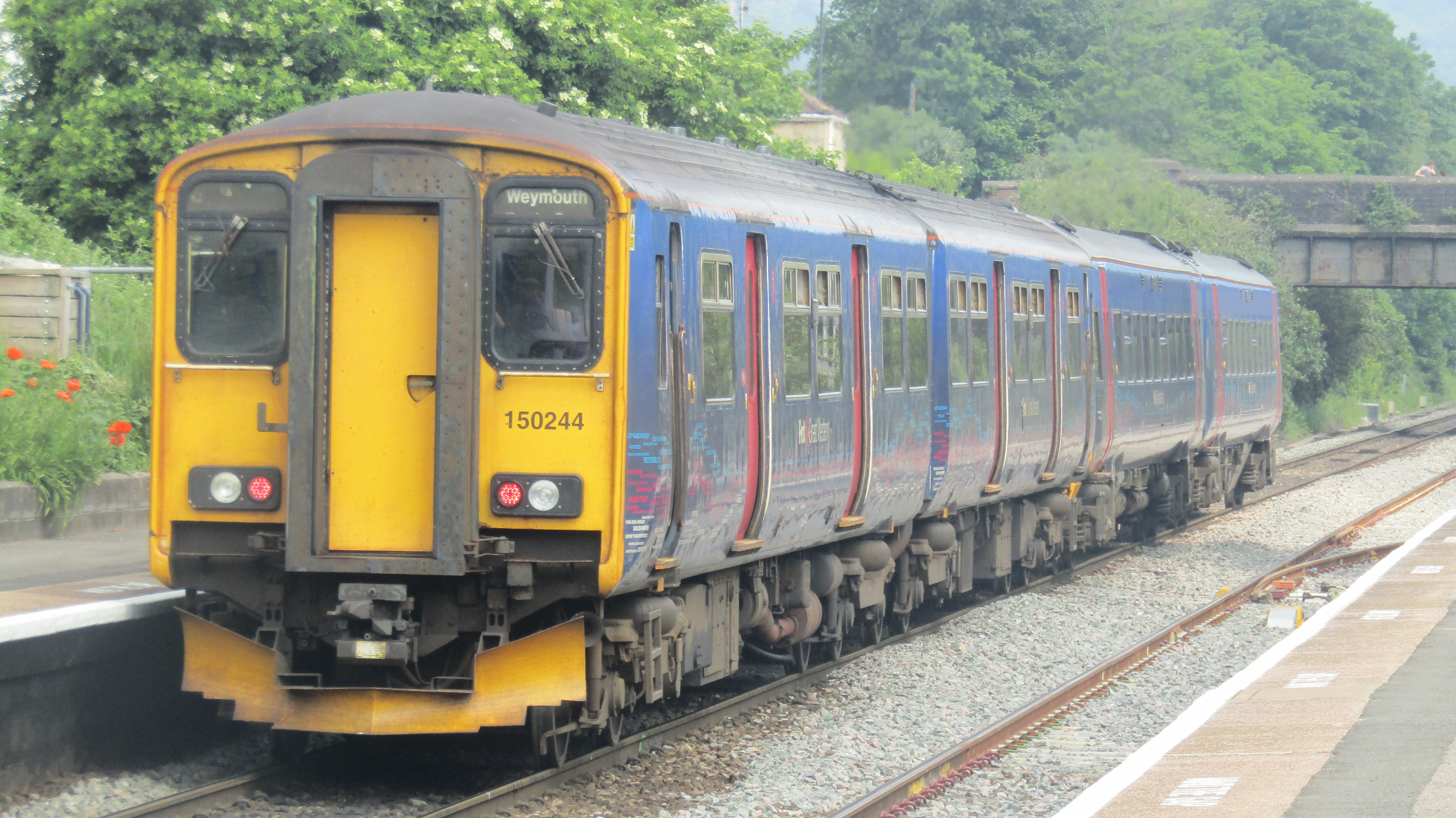 Service to Weymouth departs Oldfield Park, 2016.